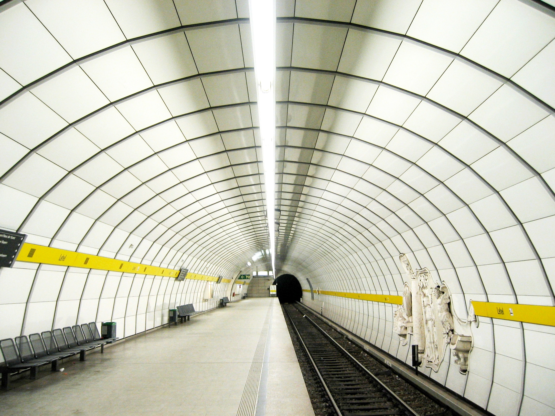 Munich subway station Lehel (U4+U5)